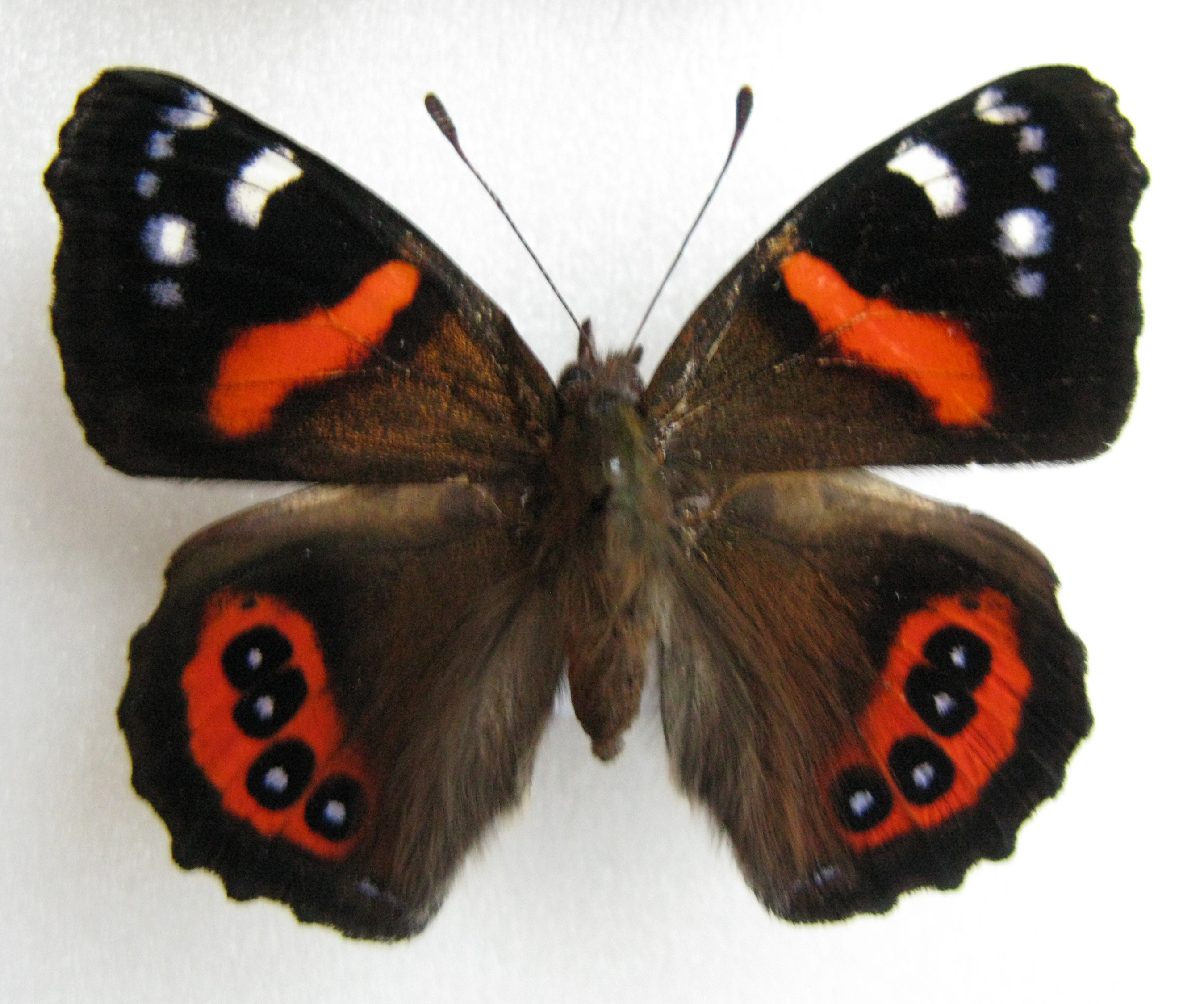 Vanessa gonerilla Fabricius, 1775